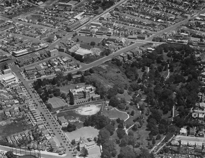 Aerial view of Freemans Bay in Auckland City, New Zealand in 1934. Visible is Auckland Girls Grammar School in the centre-left, and Western Park in the right. Extended information on origin webpage reads: Auckland Girls' Grammar School and Western Park, Auckland, with surrounding area 1934 / Reference number: WA-44310-G / 1 b&w original negative(s). Dry plate glass negative 4 x 5 inches. / Horizontal image. / Part of Whites Aviation Ltd :Photographs (PA-Group-00080) / Photographic Archive / Scope and contents: Aerial view of Auckland Girls' Grammar School, and Western Park, Auckland, with surrounding area. Photograph taken in 1934 by Whites Aviation. / File print in Whites Aviation folder: Red 13. Auckland West City 1930s-1955 (1930s envelope) / Source of descriptive information - Notes on file print, and negative envelope. Western Park recognised by cataloguer.